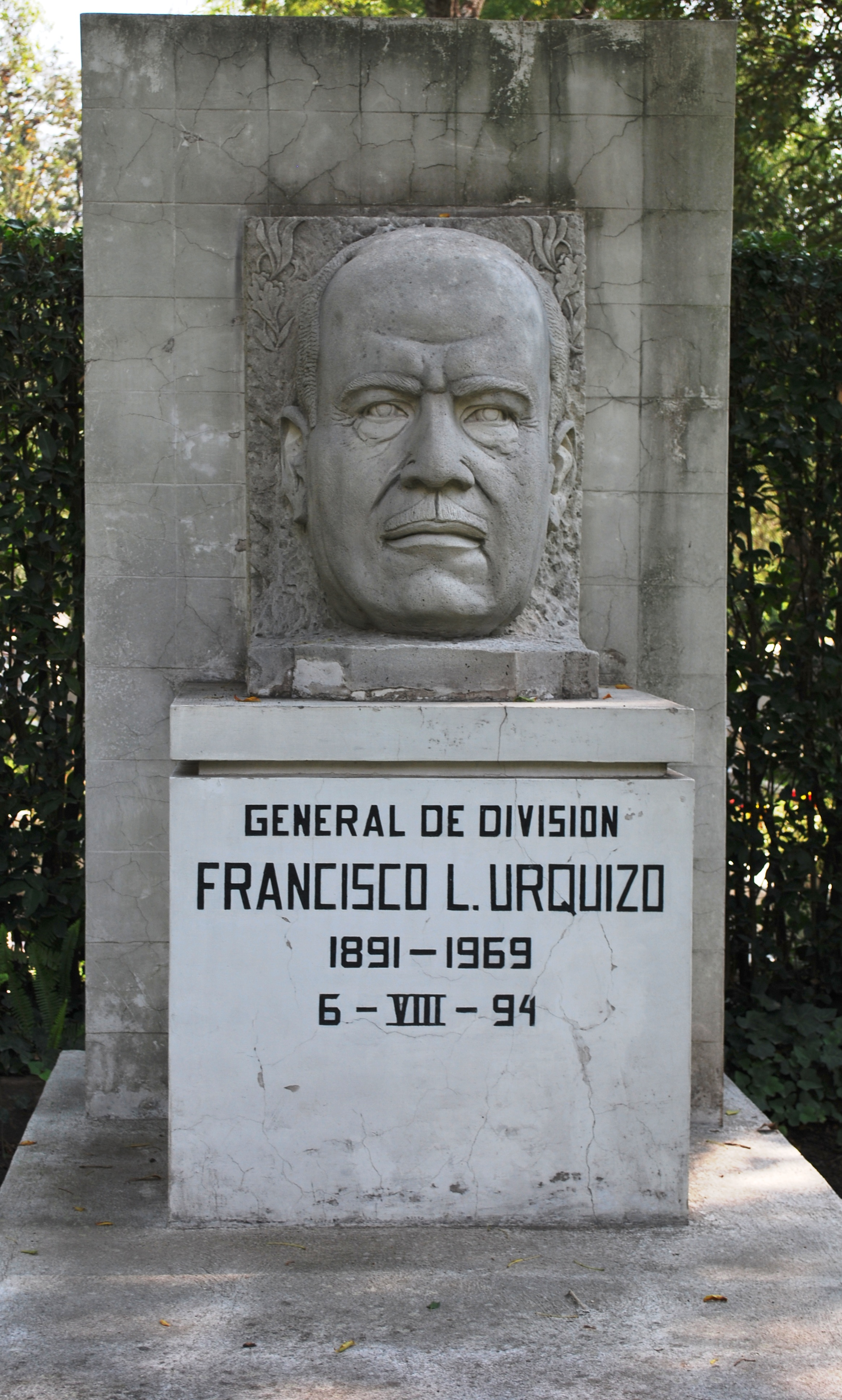 Tomb of Francisco L Urquizo in the Panteon Civil de Dolores cemetery in Mexico City